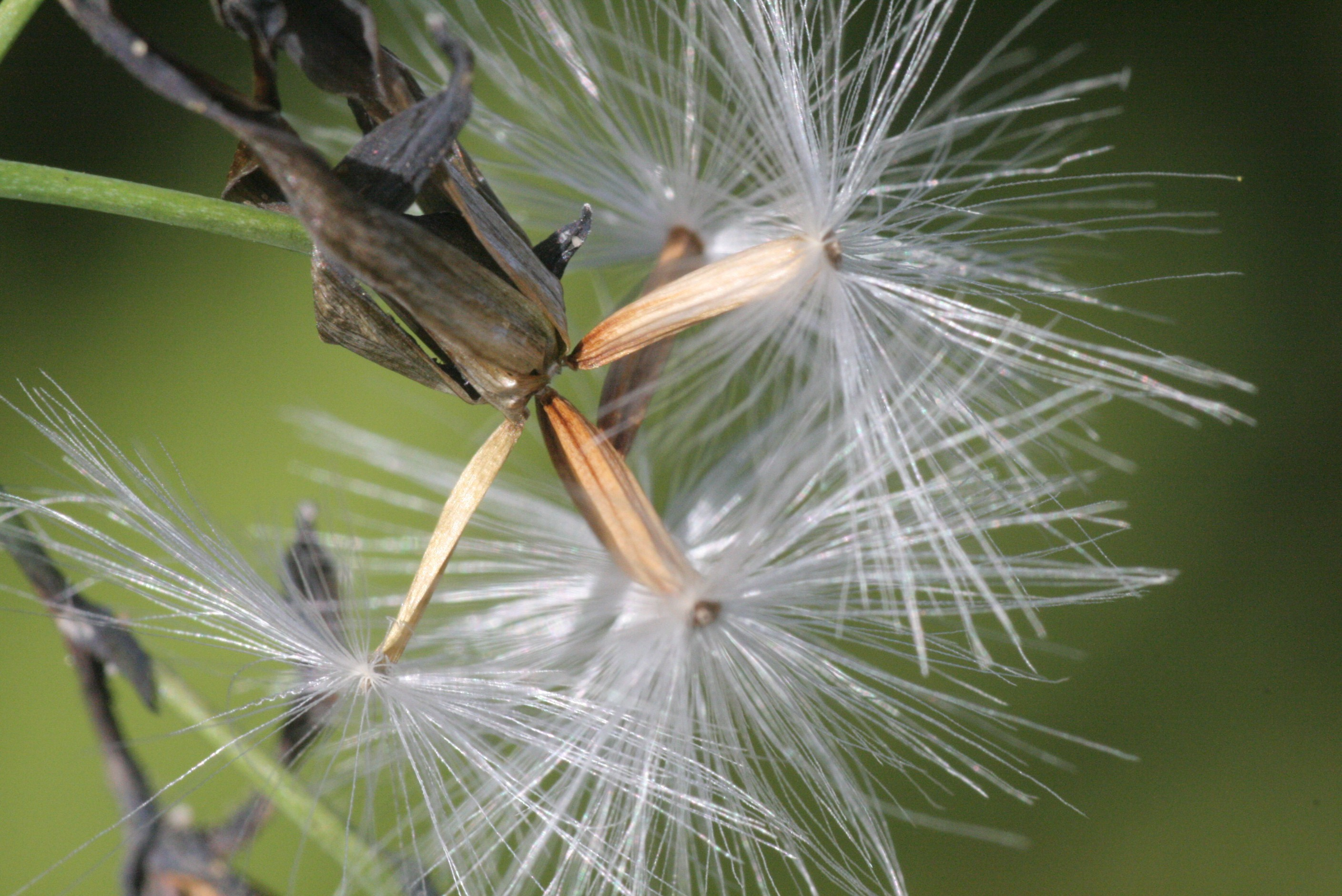 Prenanthes purpurea